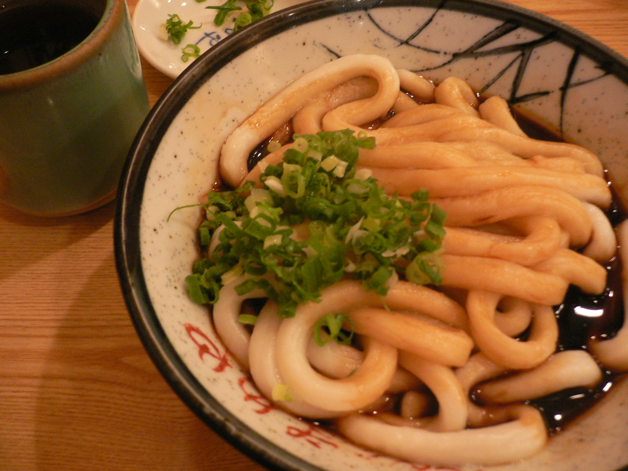 A bowl of Ise Udon noodles, a variation from Mie Prefecture